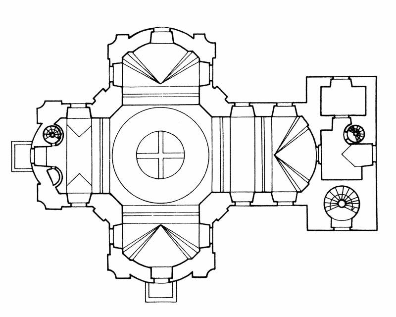 Ground plan of Church of St Wenceslas in Zvole by Jan Santini Aichel